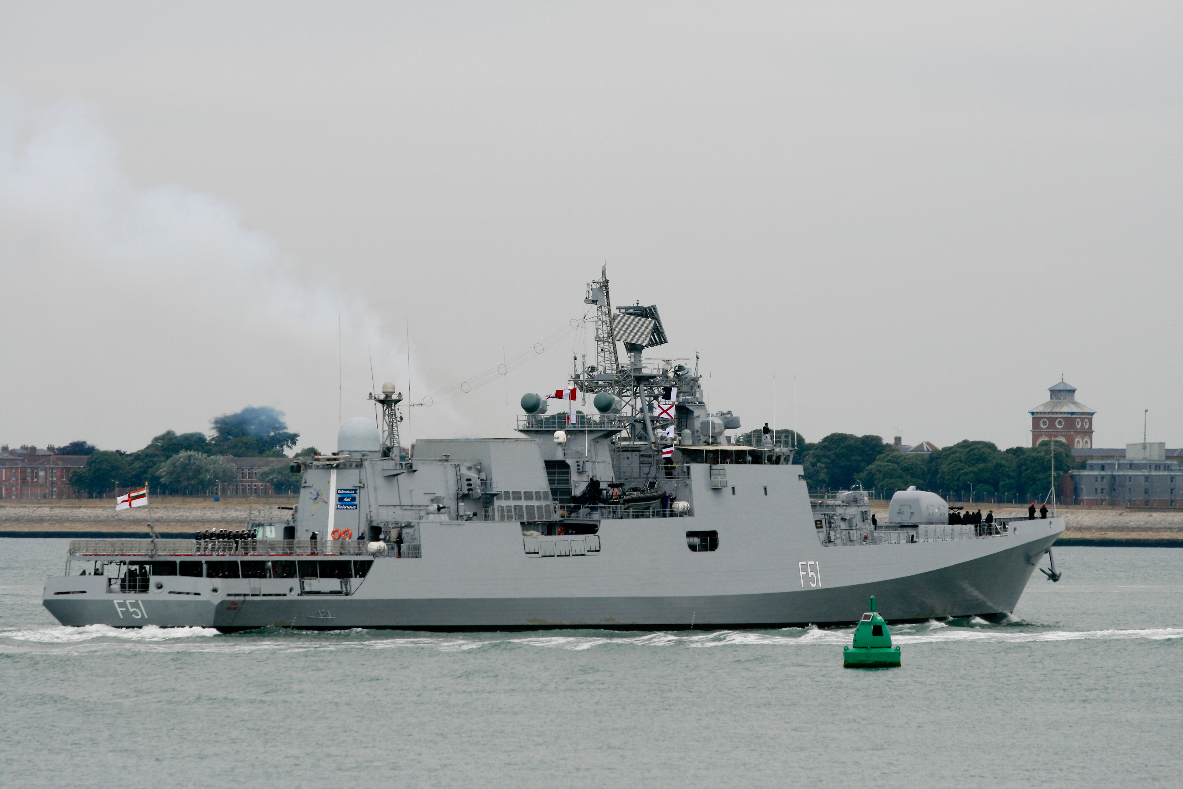 Newly constructed Indian Navy Talwar class (modified Russian Krivak III class) frigate INS Trikand (F51) off Clarence Pier, Southsea while entering Portsmouth Naval Base, UK, 12 July 2013, on an Indian-bound delivery voyage from the Baltiysky Zavod shipyard in St Petersburg, Russia. INS Trikand) is the last frigate of her class ordered from a Russian shipyard. The successor frigate class to the Talwars is the Shivalik class, and these are being built at Mazagon Dock. Mumbai in India. At the extreme right shoreline can be seen the belltower of the former Royal Naval Hospital Haslar. Wikipedia editors are reminded that the copyright remains with the photographer, and that the terms of the Creative Commons (CC), Attribution (BY), Share Alike (SA) CC-BY-SA-3.0 that allow editors to reuse this image apply to Wikipedia editors also, as they do to other re-users of this image. Breaches of the licence terms are not only unlawful, but are also antisocial, in that breaches discourage photographers from making their images freely available to everyone without payment. Wikipedia re-users are also reminded of the license terms that derivatives of this image should not imply that the adaptation is endorsed or approved by the author or copyright holder. Neither should derivatives be presented as the creation of the author or copyright holder, while clearly stating that the adaptation is a derivative of the original. Attribution online should be in this format Brian Burnell. On the printed page, a simpler form is acceptable - example: "Image: Brian Burnell".